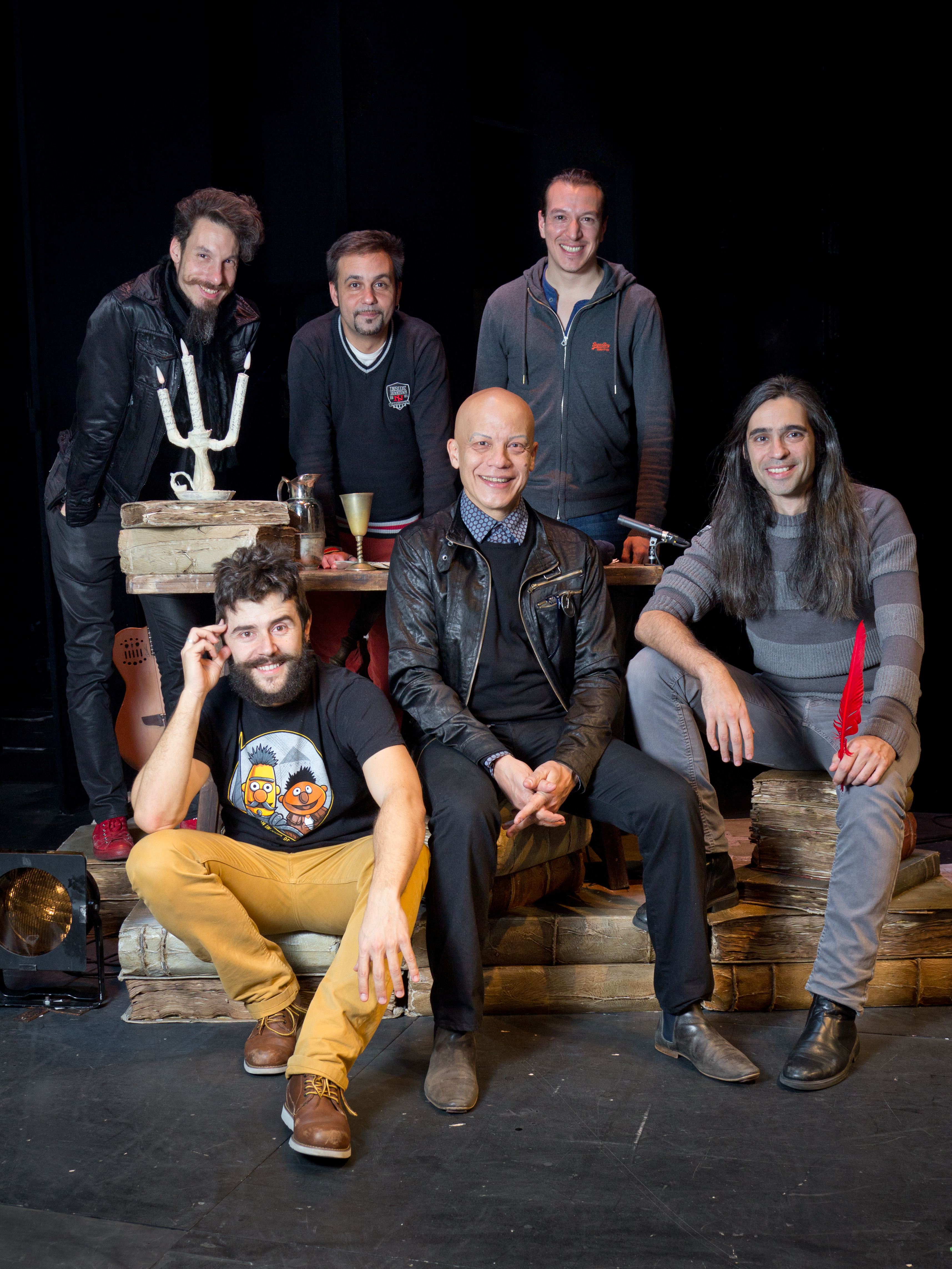 Theatre company Ron Lalá posing on stage during their tour of En un lugar del Quijote ("Somewhere in El Quijote") at the Pavón Theatre in Madrid, Spain. From left to right and from top to bottom: Íñigo Echevarría, Miguel Magdalena, Juan Cañas, Daniel Rovalher, Yayo Cáceres y Álvaro Tato.